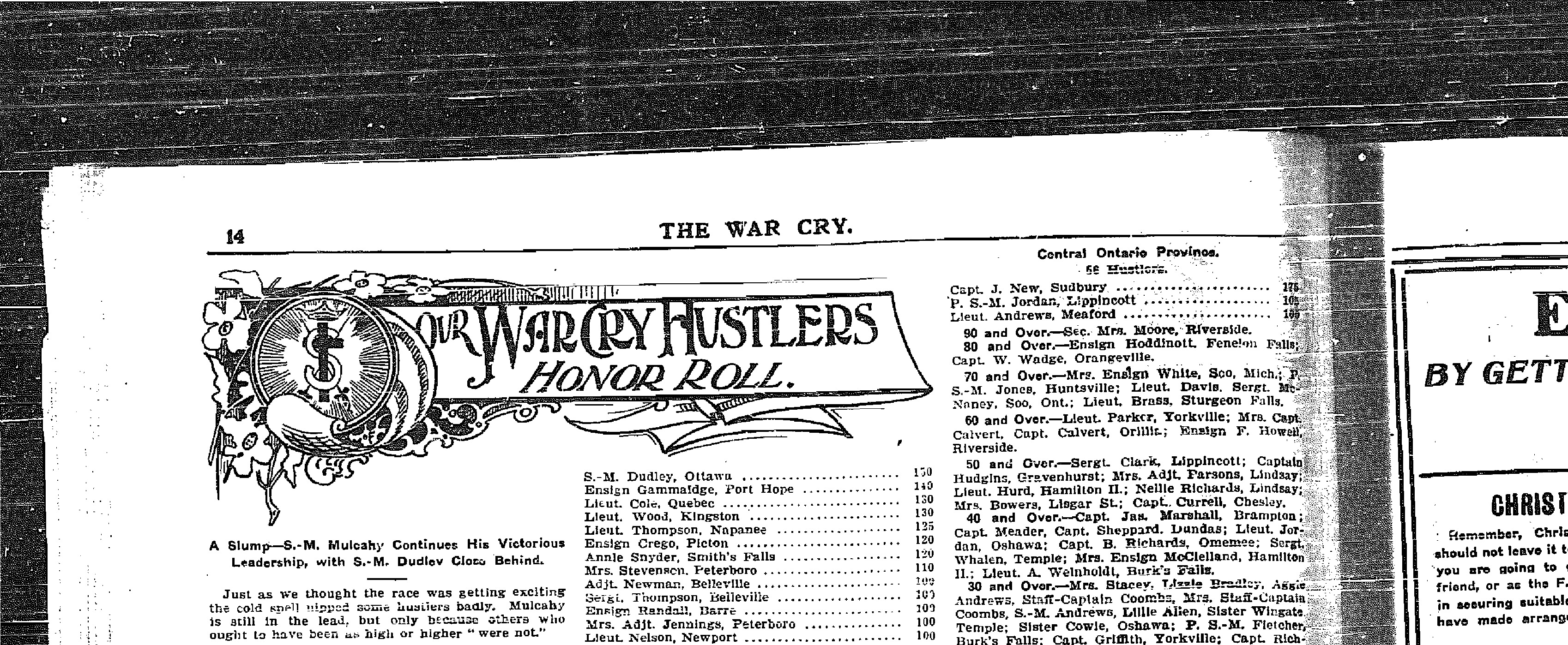 Title: The War Cry Year: 1904 (1900s) Authors: Subjects: Salvationist Publisher: View Book Page: Book Viewer About This Book: Catalog Entry View All Images: All Images From Book Click here to view book online to see this illustration in context in a browseable online version of this book. Text Appearing Before Image: therisk of entertnlnlng lodgers, who, as the Adjutantputs it, enter one thou.sanJ strong, and leave ainne. Altogether the Metropole is a tliOioughly-equtpped.valuable institution, and to make It tio has cost theArmy 51,600, It promises to do a good work both in the frontand upper storeys at tiie rear, where tho.-.e in hardcircumstances may And rest and shelter. The new Institution comes Into existenop uurhTthe direction of Colonel Sharp, who has dlsiil.Tveiliudira Biiciey uud auliity oa iieini or the 5nFV,itiiiArmy In the Eastern Province, and who Is aidedwtU hv Chanccllar Phniip= enfl Ms Ptuft.—Si. jnhn 8. A. IMMIGRATION AND TRANSPORTATIONDEPARTMENT. Wo are Agents £or iUl Oie leading Railway andsteamship Line:, and book passengers for all partsoj the world. Any officers, aoldlcra, or Jrlenda eon-tempIa-tlHR vlslUnir Eln^land. cr anv other part aIhB wdrldi or deslrlns to send for friends, are advlaadto writs &M lowest rataa, eto., to Brigadier T. Homell30 .UbcrJ St., Toswato. ^ Text Appearing After Image: '